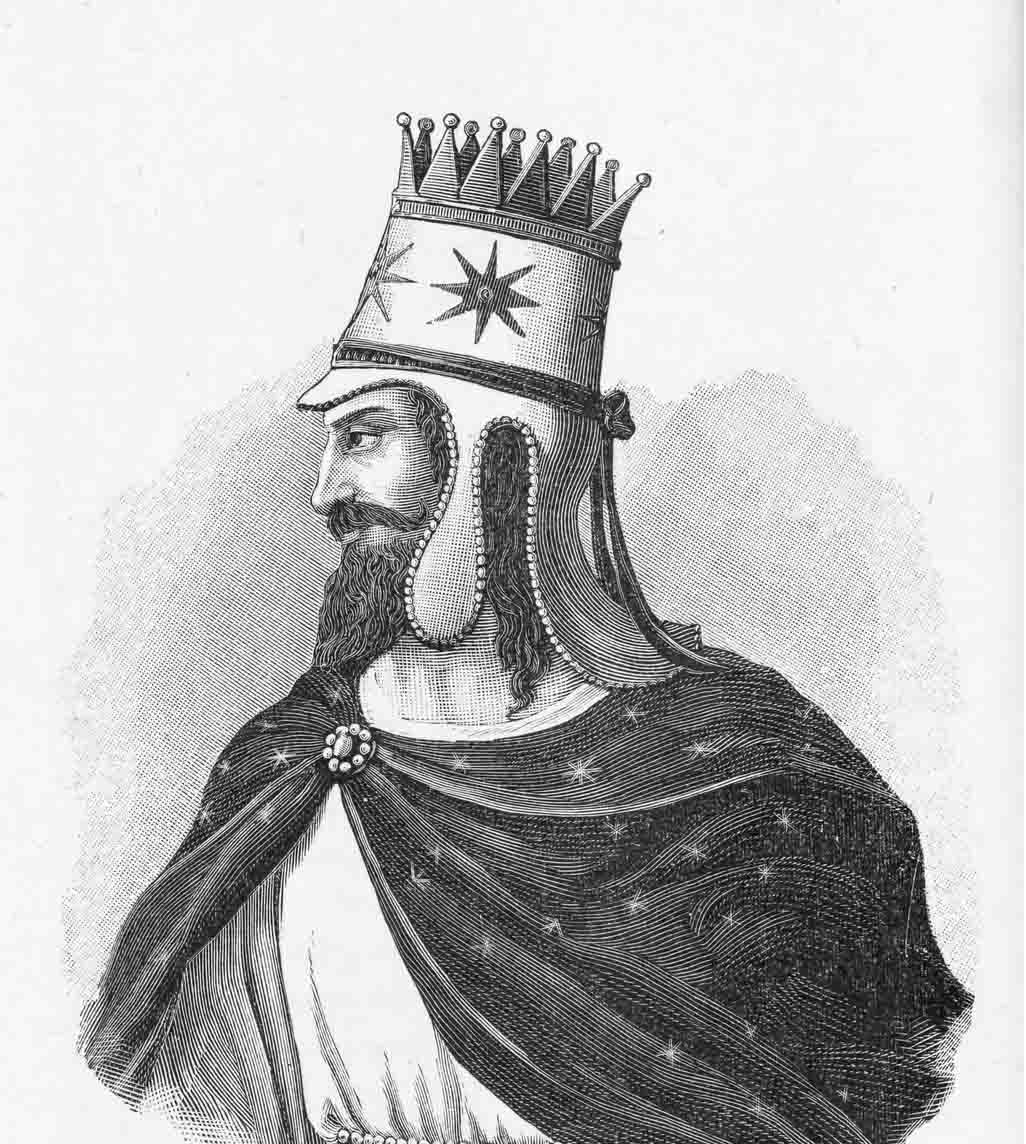 Artashes I - King of Great Armenia